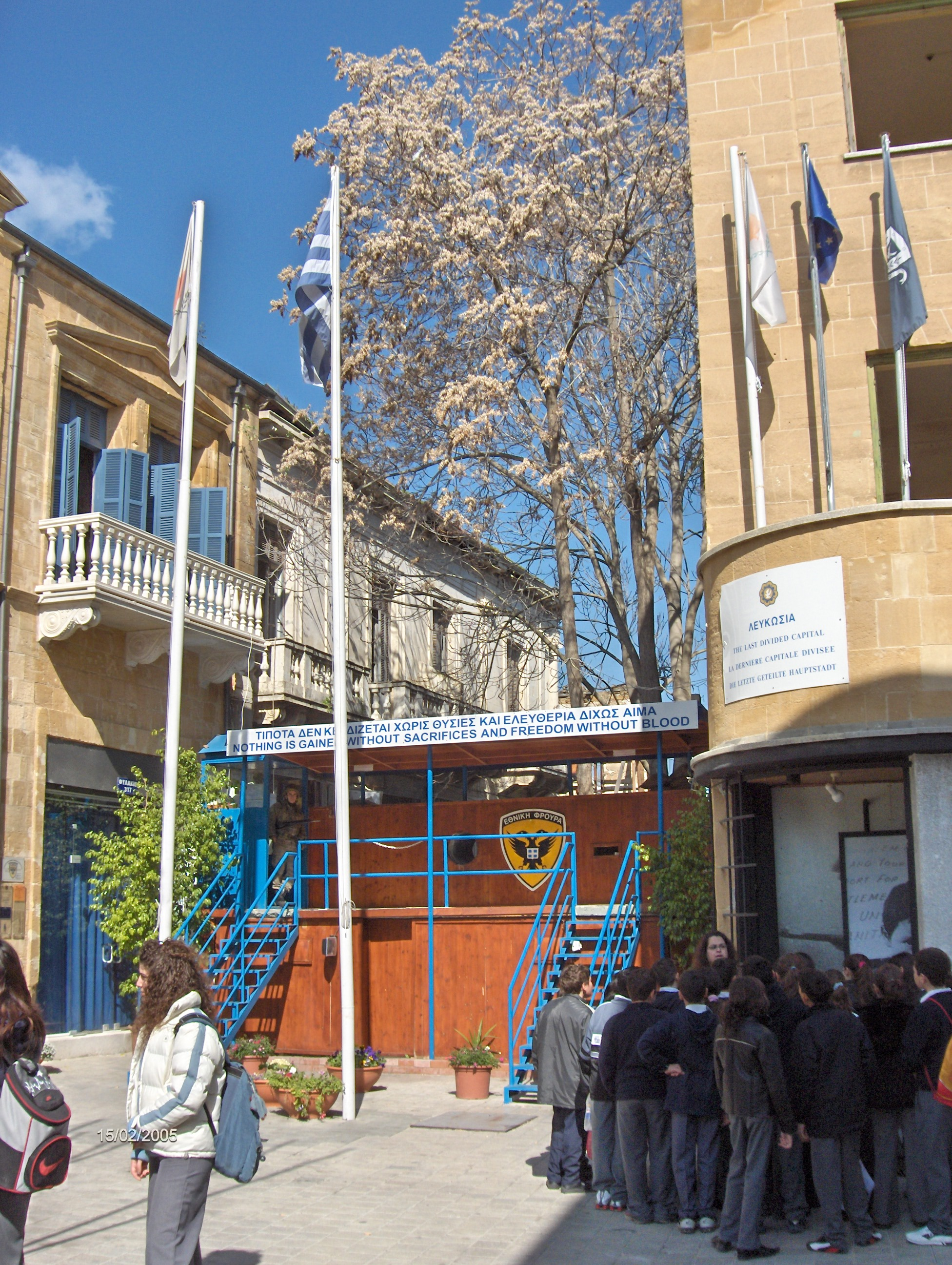 Checkpoint on Nicosia's Ledra Street in 2005, before the opening of the "border". (Cyprus)